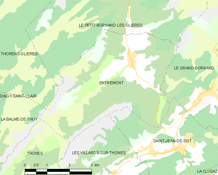 Map of French municipality Entremont